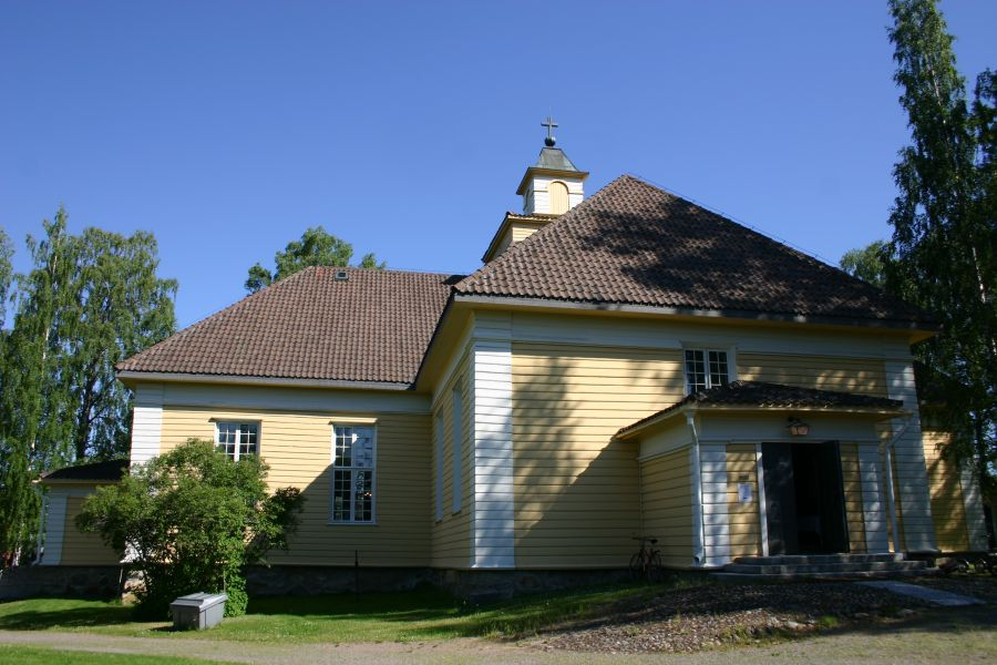 Joroinen Church in Joroinen, Finland. Completed in 1793. Designed by Juhana Karppinen (Karp).